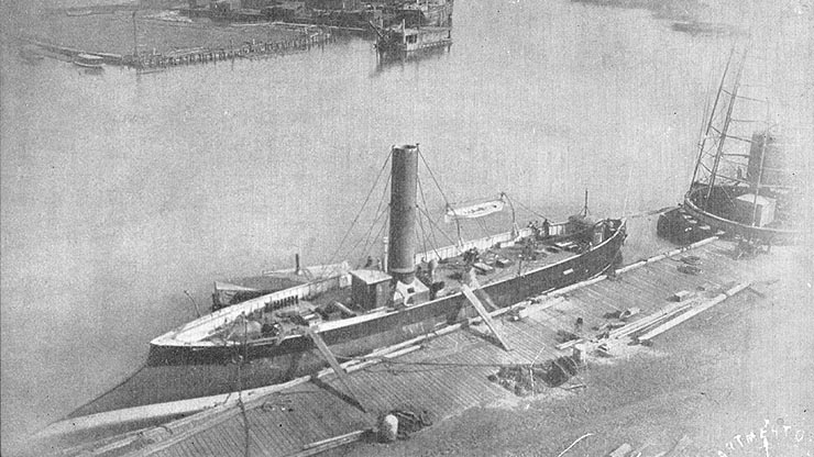 USS Alarm (1874-1898) while she was alongside at the New York Navy Yard, Brooklyn, New York